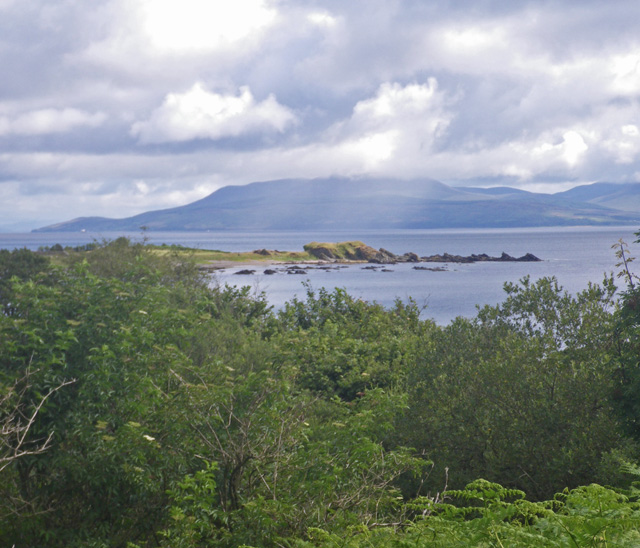 Scrubby coastal area at the north of Kildonald Bay, near to Ugadale, Argyll And Bute, Great Britain. The native scrub vegetation is so thick that it is difficult to wade through or peer over. This is a very lightly visited area and correspondingly a delight of unspoiled plant life and other natural features.